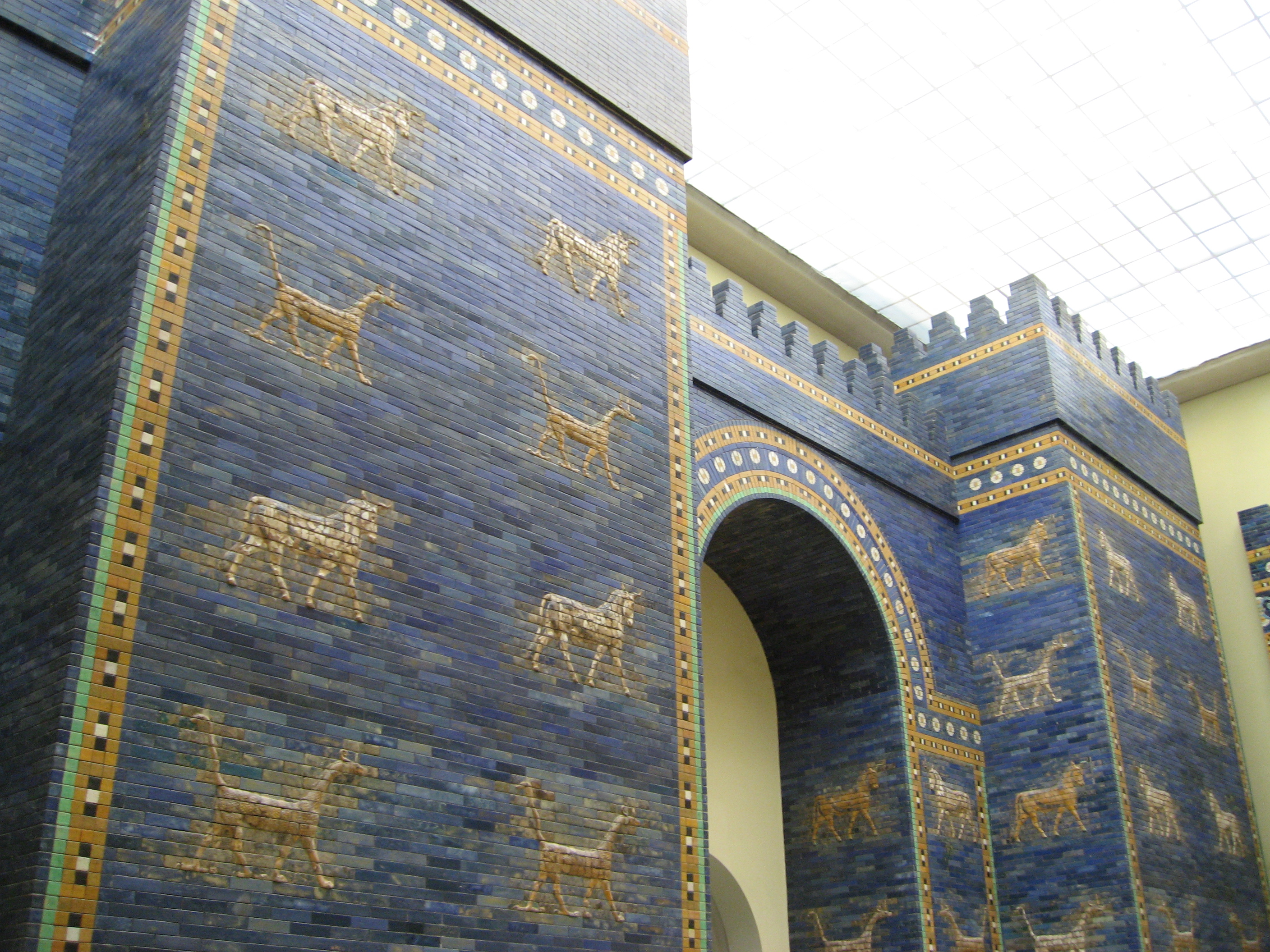 Ishtar Gate in the Pergamonmuseum